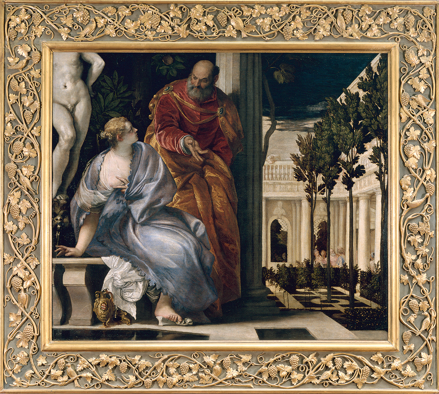 Bathsheba at Bath, Paolo Veronese, oil on canvas, 191 cm × 224 cm, FIne Arts Museums Lyon.